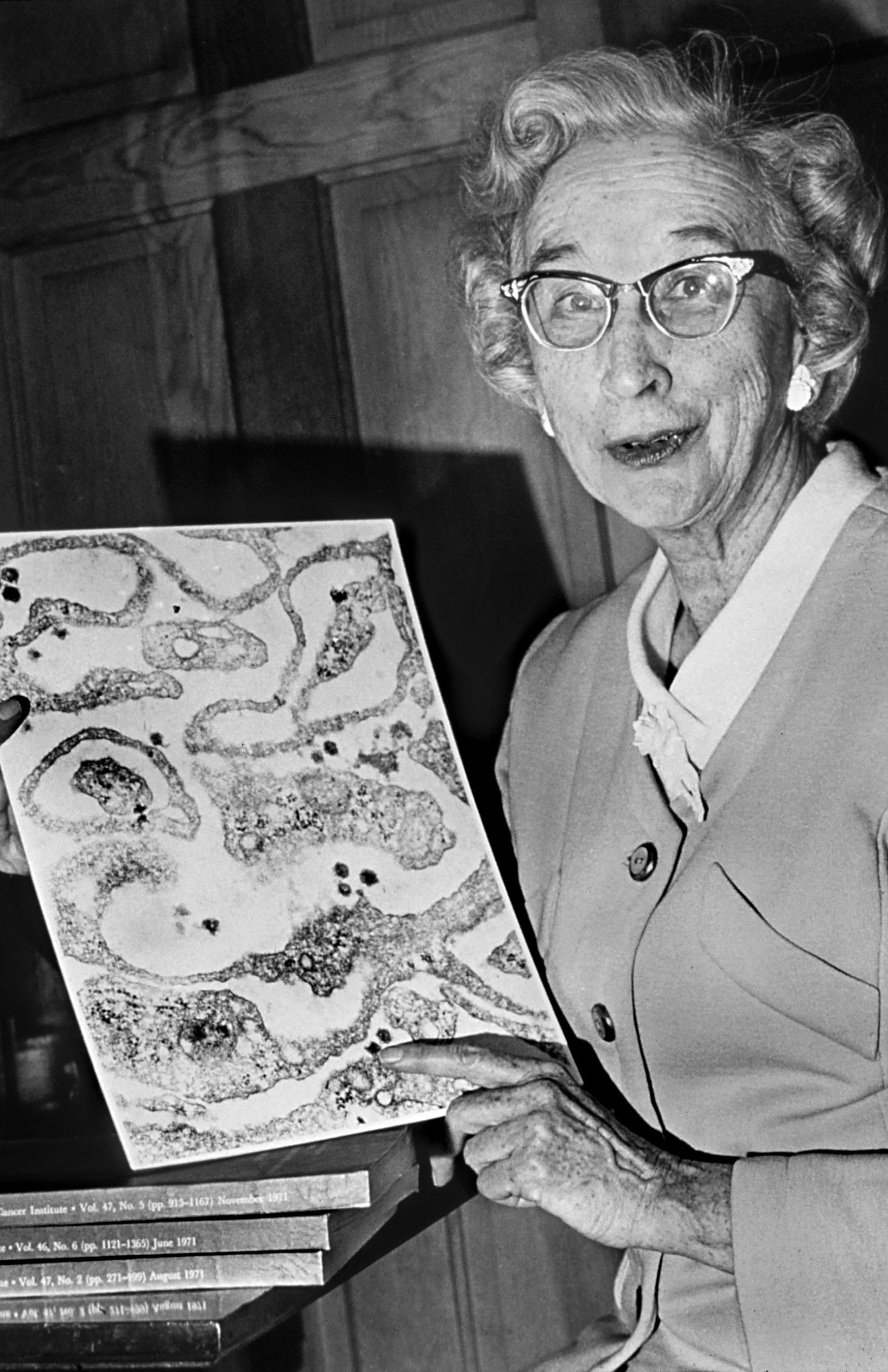 Photo of Sarah Stewart. Ms. Stewart was the first to demonstrate virus causing cancer in many species.